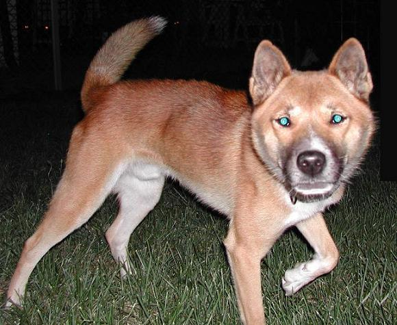 To learn more about these rare and primitive dogs, go to